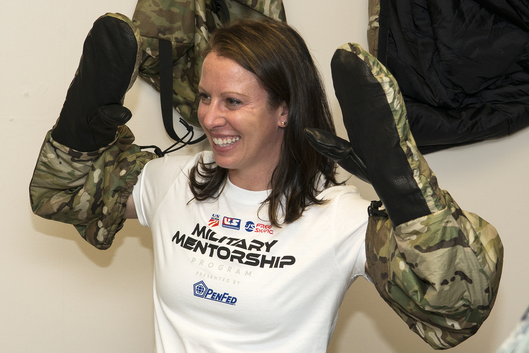 Emily Cook, 3-time Olympian U.S. Freestyle skier, tries on cold weather survival gear during a tour of the 307th Operations Support Flight aircrew flight equipment shot, June 4, 2014, Barksdale Air Force Base, La. Cook is part of the American300 Tours, which visits military installations with the goal of increasing resiliency of the troops, their families, and the communities that they live and operate in. (U.S. Air Force photo by Master Sgt. Greg Steele/Released)